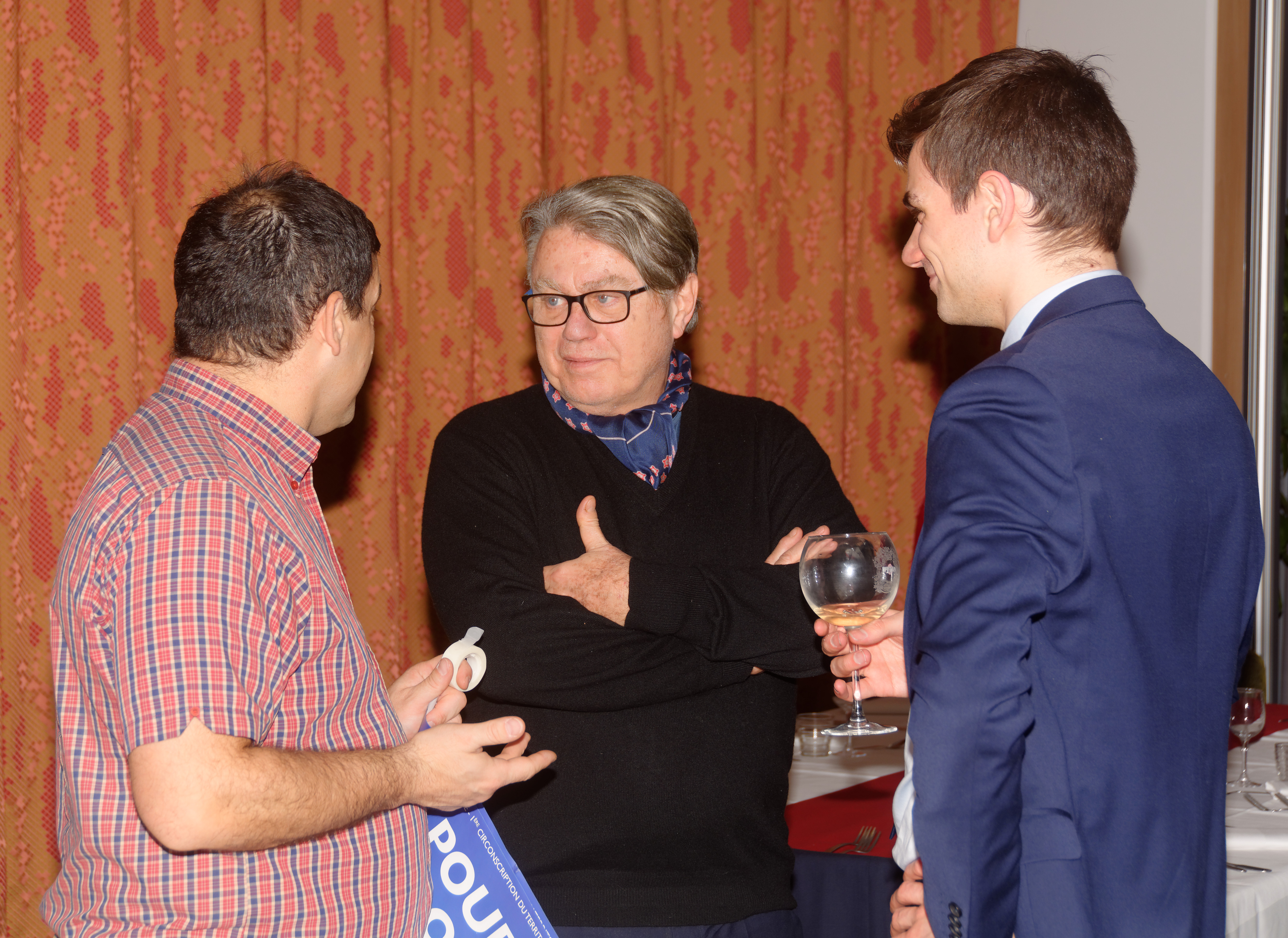 Personality rights warningAlthough this work is freely licensed or in the public domain, the person(s) shown may have rights that legally restrict certain re-uses unless those depicted consent to such uses. In these cases, a model release or other evidence of consent could protect you from infringement claims.